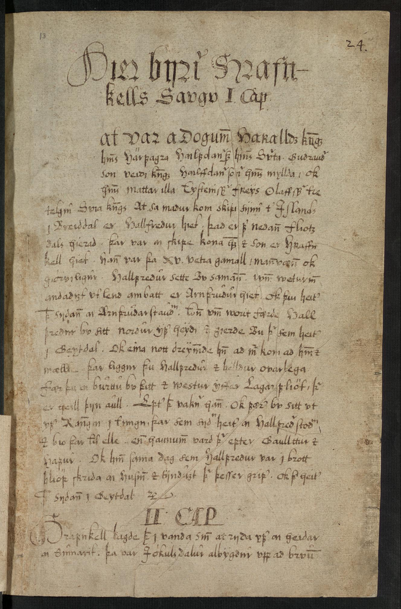 The first page of Hrafnkels saga. From the 17th century Icelandic manuscript AM 156 fol now in the care of the Árni Magnússon Institute in Iceland.